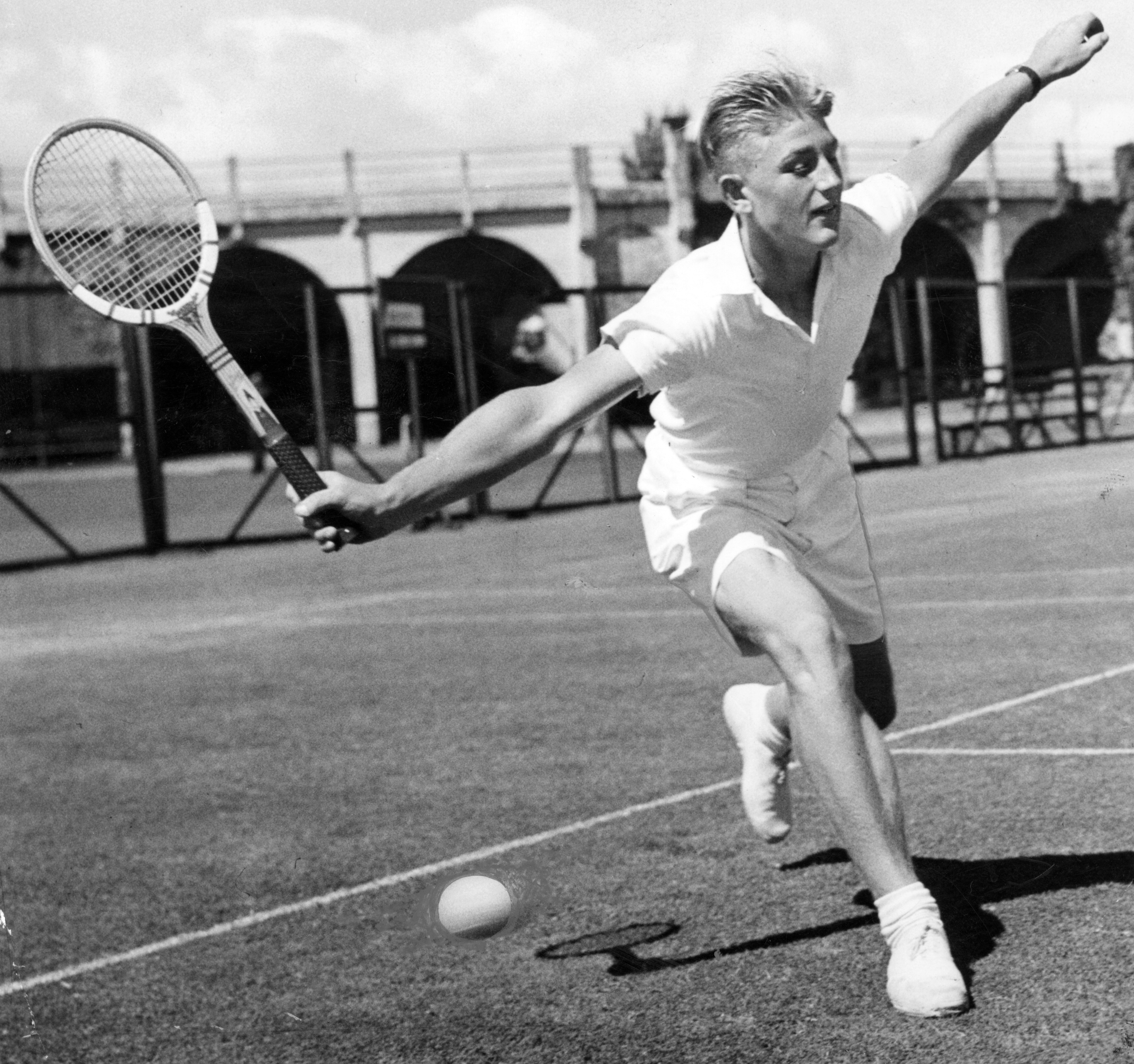 Australian tennis player Lewis Hoad at age 15 competing at Kooyong in Inter State Tennis.